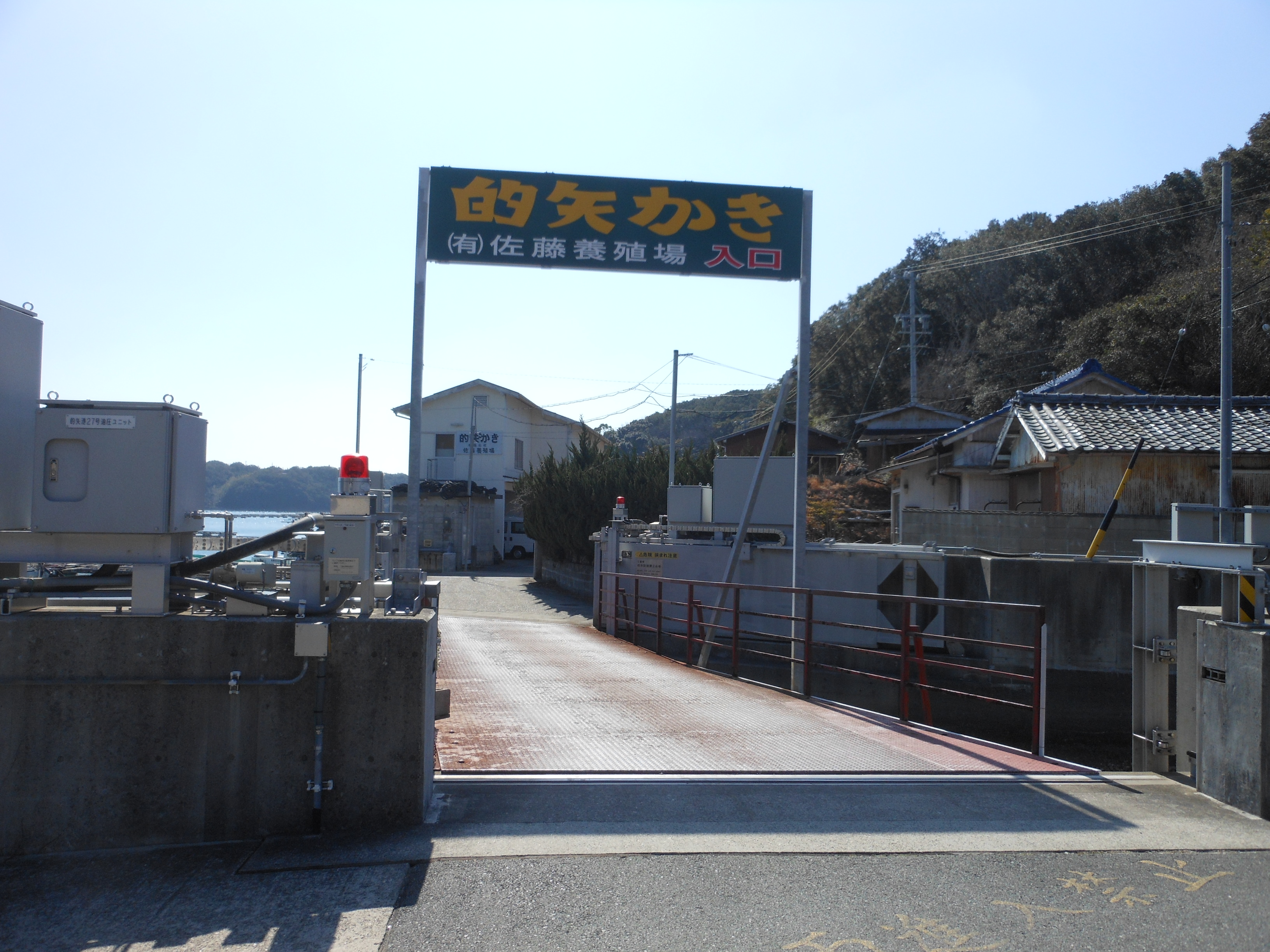 This is a company of Matoya Oyster.